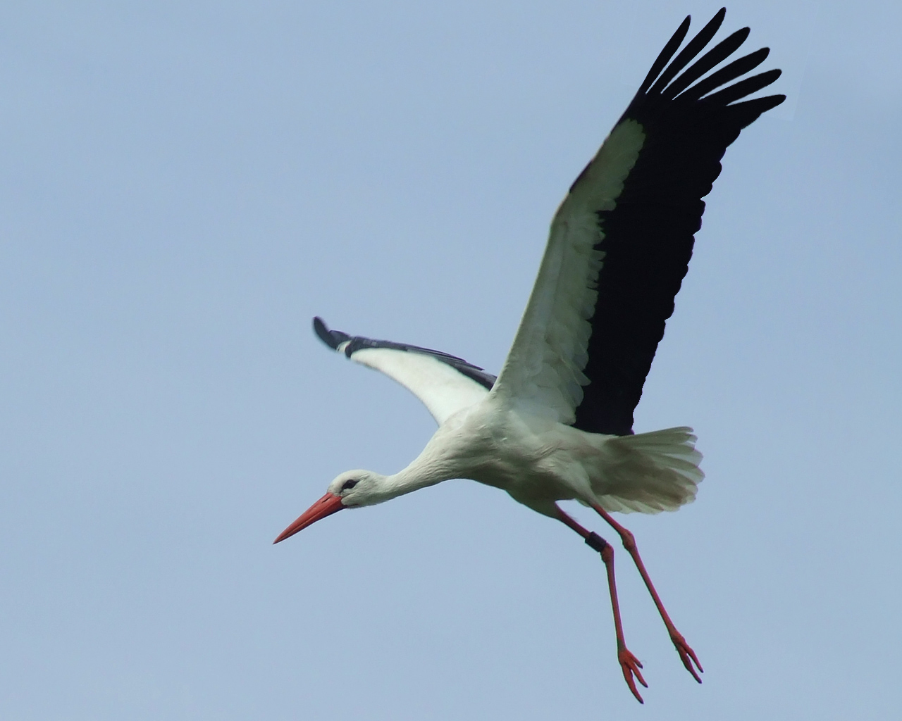 White stork, starting from the nest